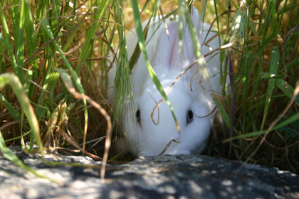 Photo by Marcus Aurelius Thistle is a beautiful Blue Eyed White Mini Rex Doe born on February 24th, 2006. She lives in Sausalito CA.